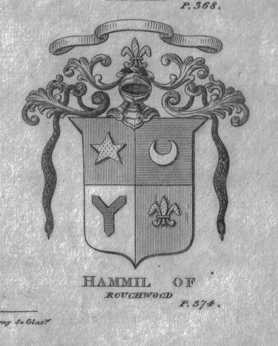 The Coat of Arms of the Hammils of Roughwood or Rouchwood